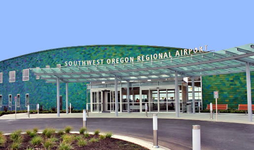 Southwestern Oregon Regional Airport